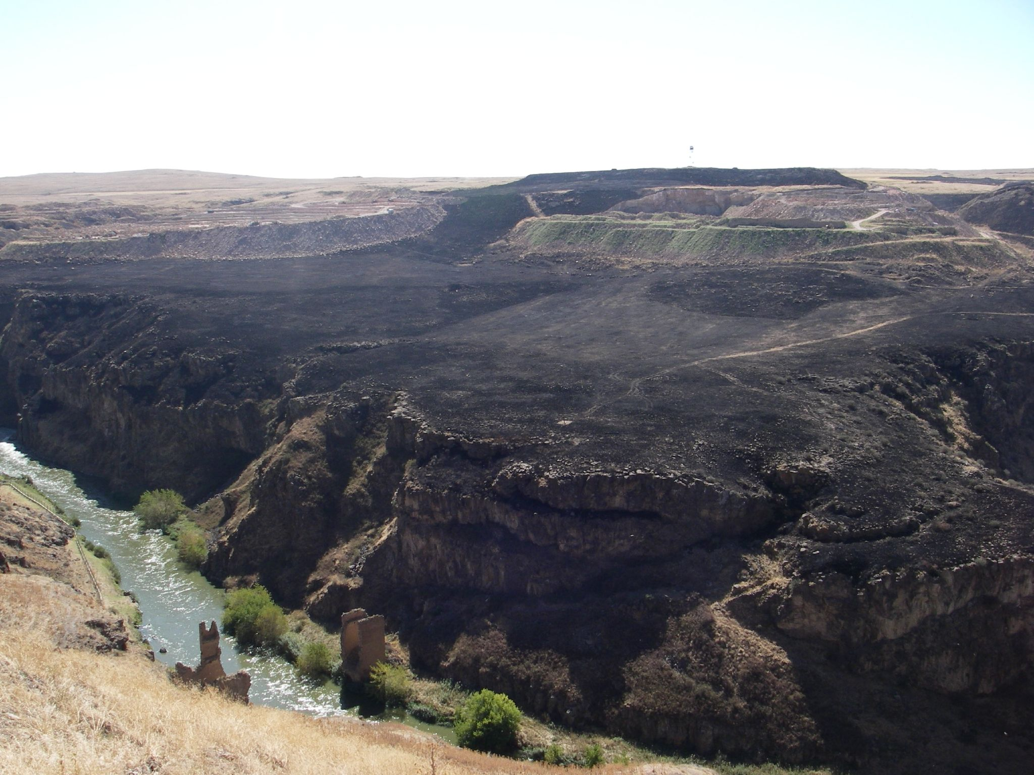 The Akhurian River marks the border between Turkey and Armenia. The bridge on this picture tells us a story about the relationship between these two countries